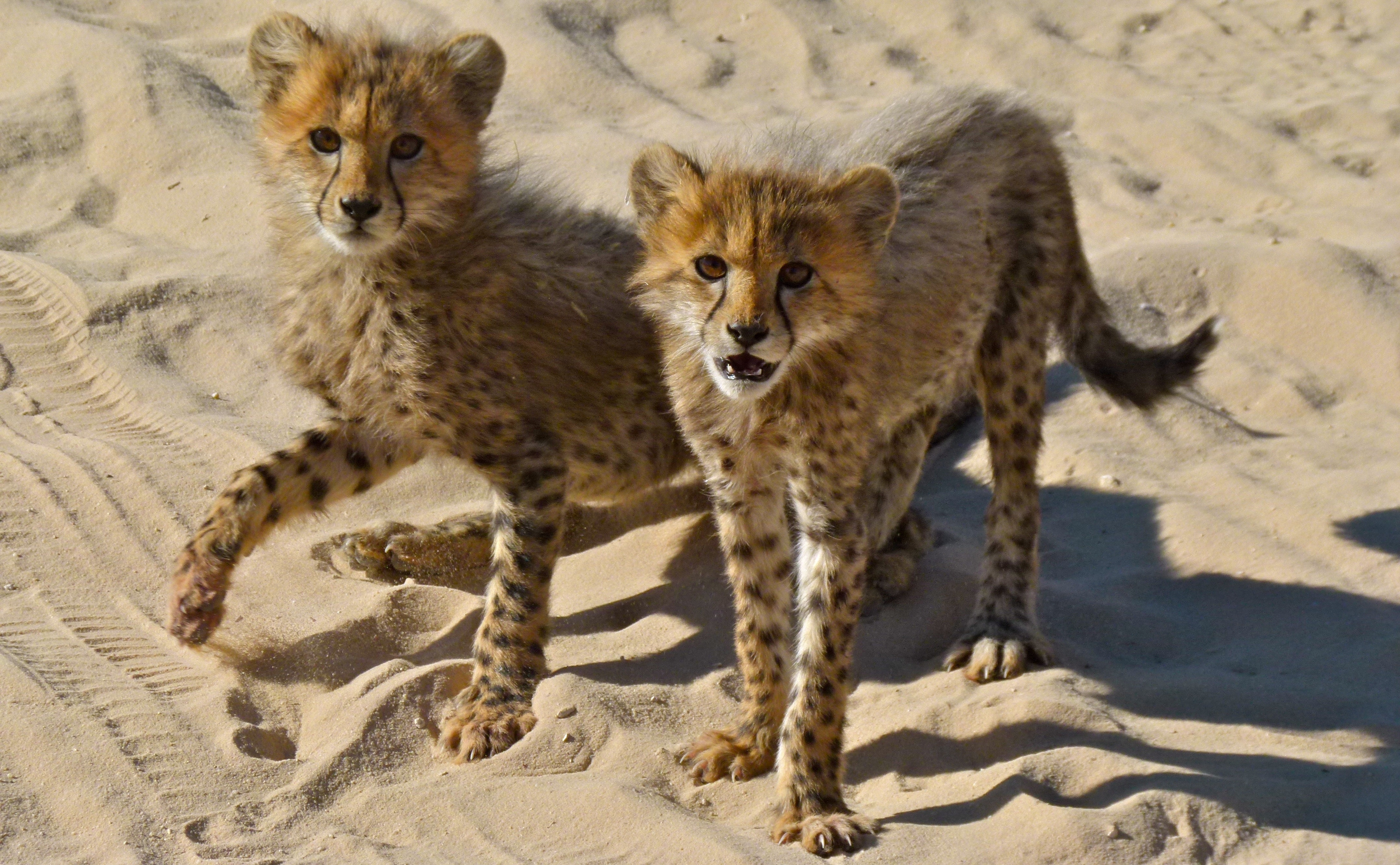 Nossob Riverbed near Cheleka Waterhole, Kgalagadi Transfrontier Park, SOUTH AFRICA